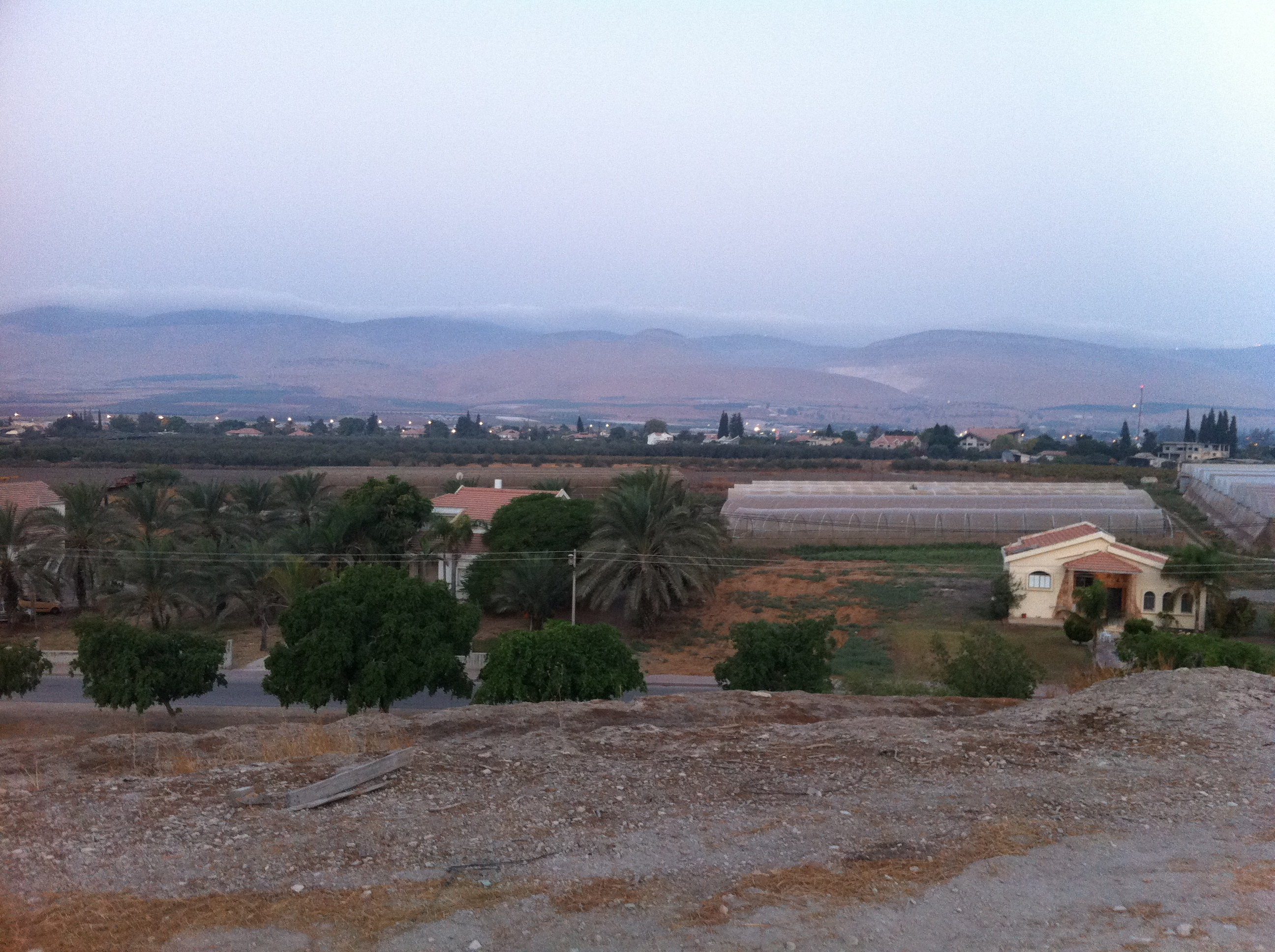 Geography of Israel